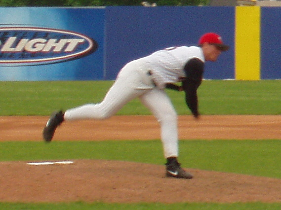 Joshua Hill pitching against West Michigan @ Quad City 19-05-2003